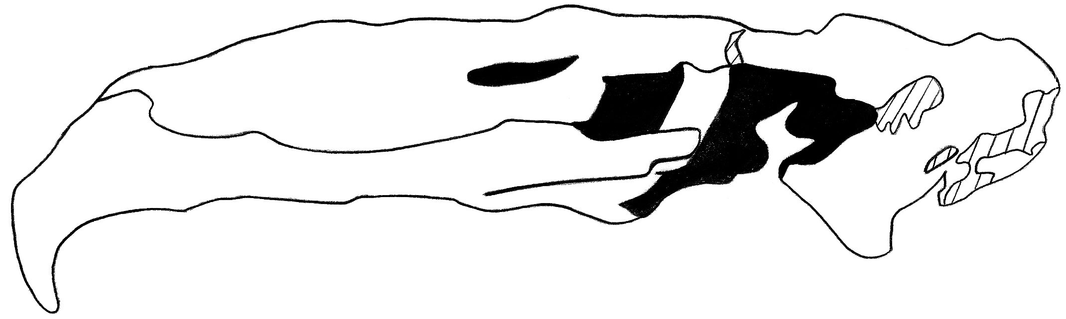 sketch of the skull of Kelenken (left side), based on an image and similar sketch in "A NEW PHORUSRHACID (AVES: CARIAMAE) FROM THE MIDDLE MIOCENE OF PATAGONIA, ARGENTINA"; hatched parts are missing in the fossil